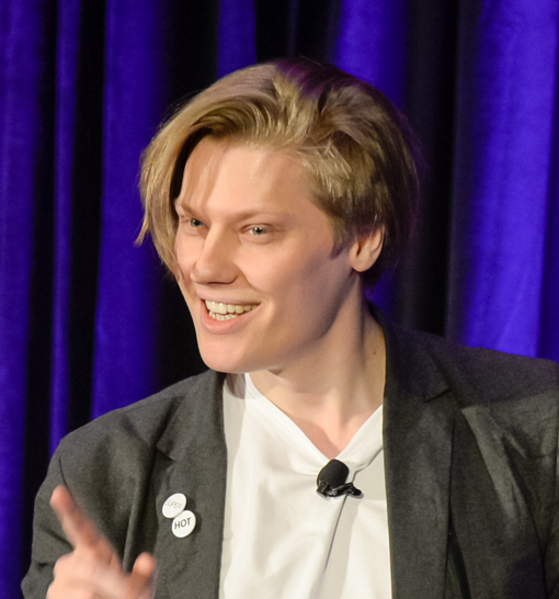 "Game Design and Mind Control in SUPERHOT Piotr Iwanicki | Game Designer, SUPERHOT Location: Room 2005, West Hall Date: Monday, March 14 Time: 4:40pm - 5:10pm"